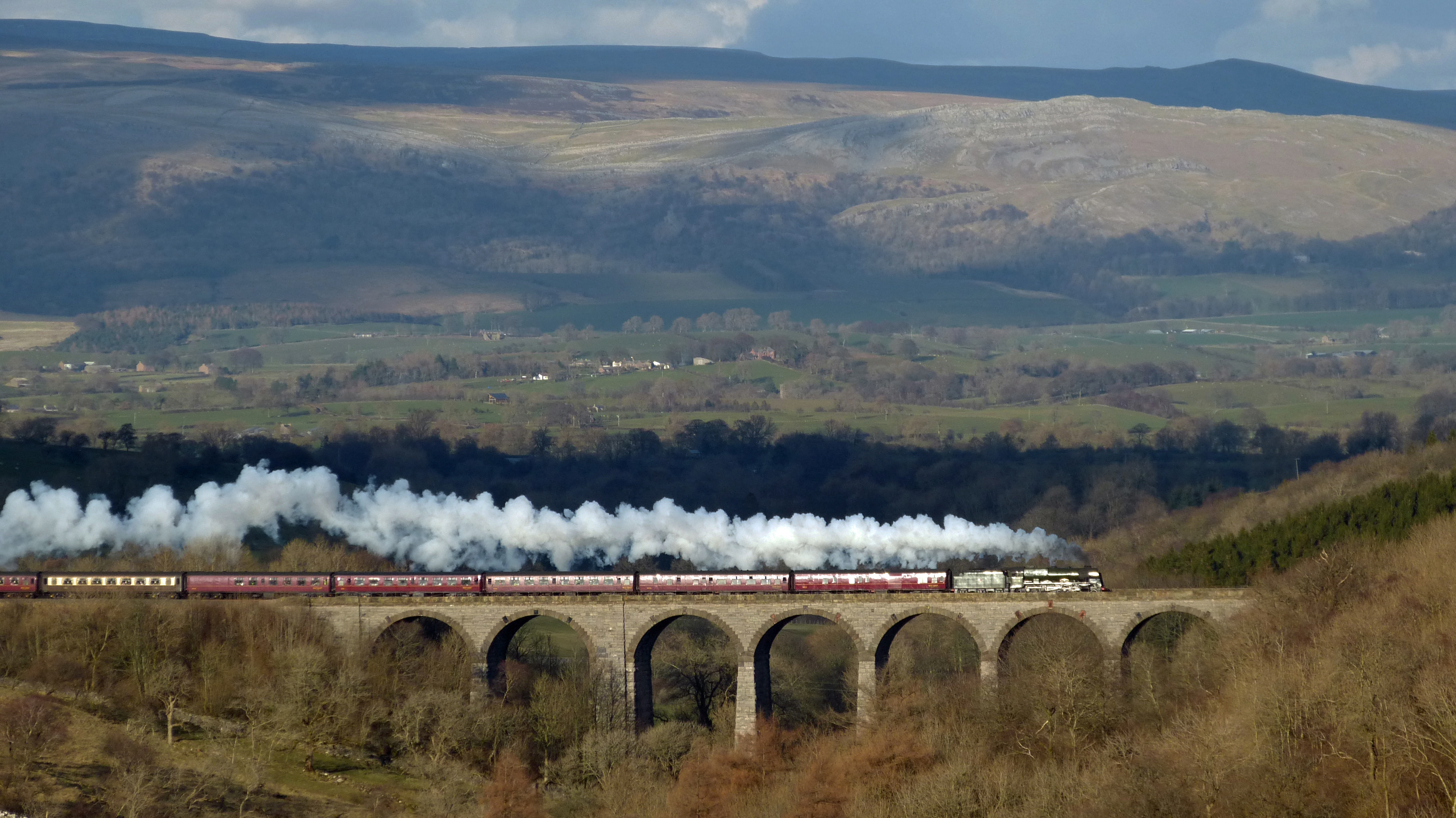 Scots Guardsman crosses Smardale Viaduct.